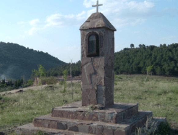 Brand to remember where the Virgin appeared to him to pastor Rodanas.